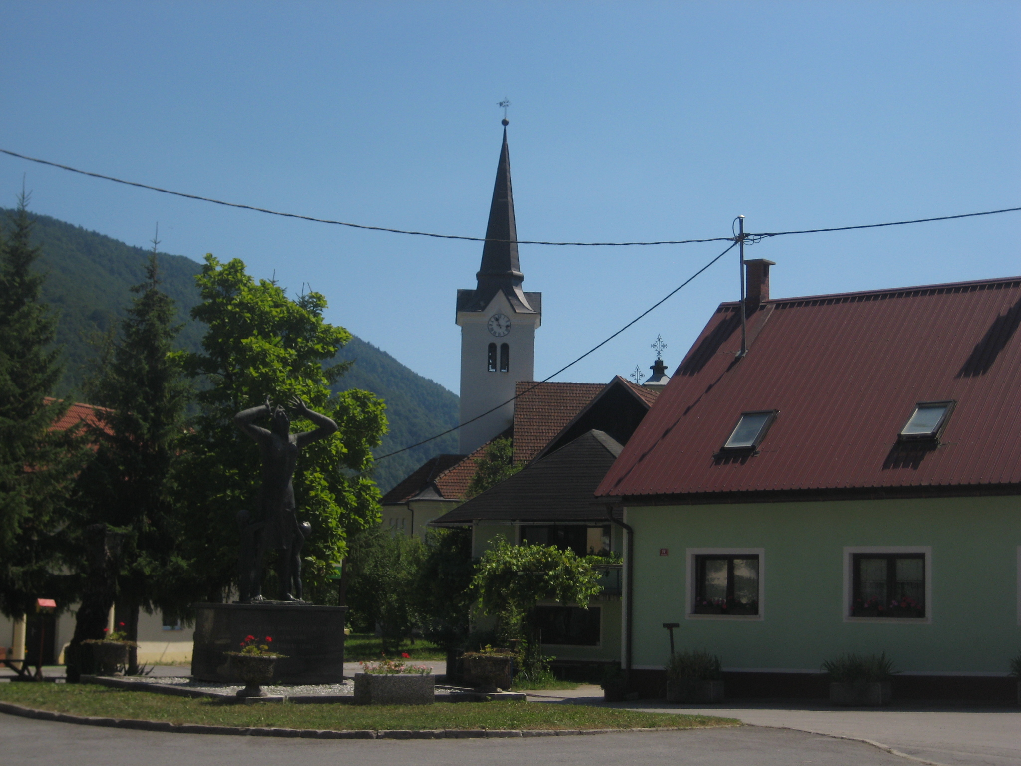 Osilnica, village in Slovenia